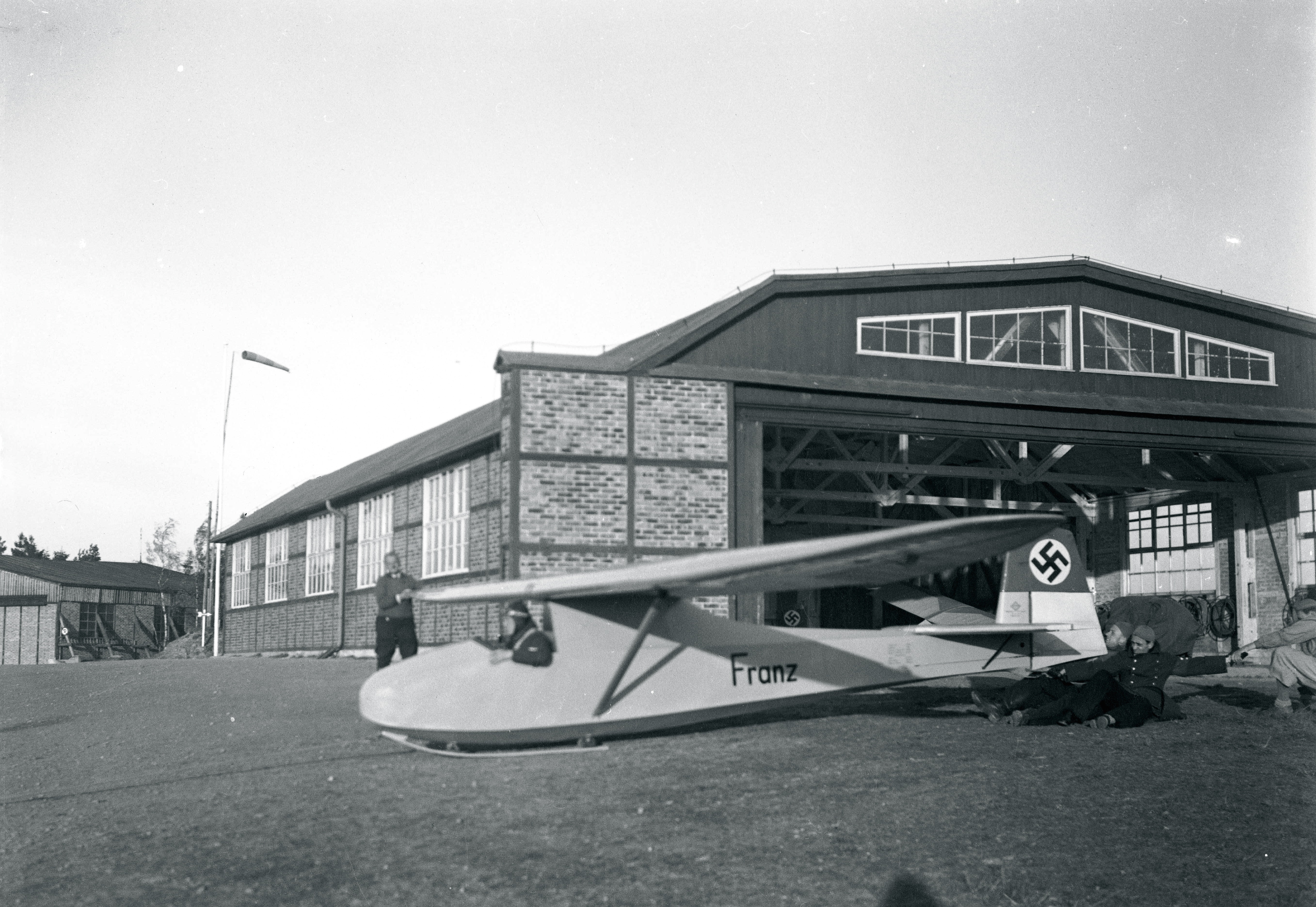 Grunau Baby II start in front of Werfthalle Grunau